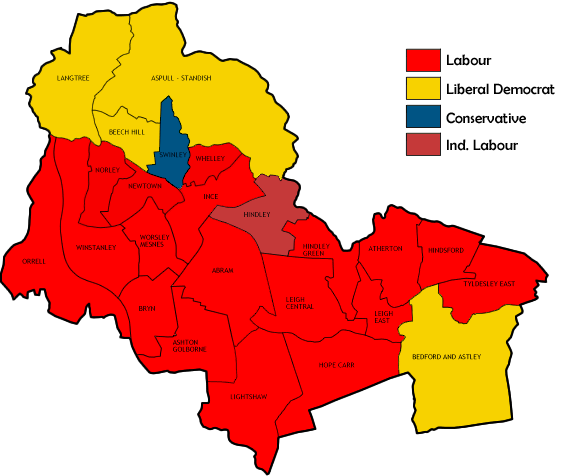 Wigan ward map with political colouring.